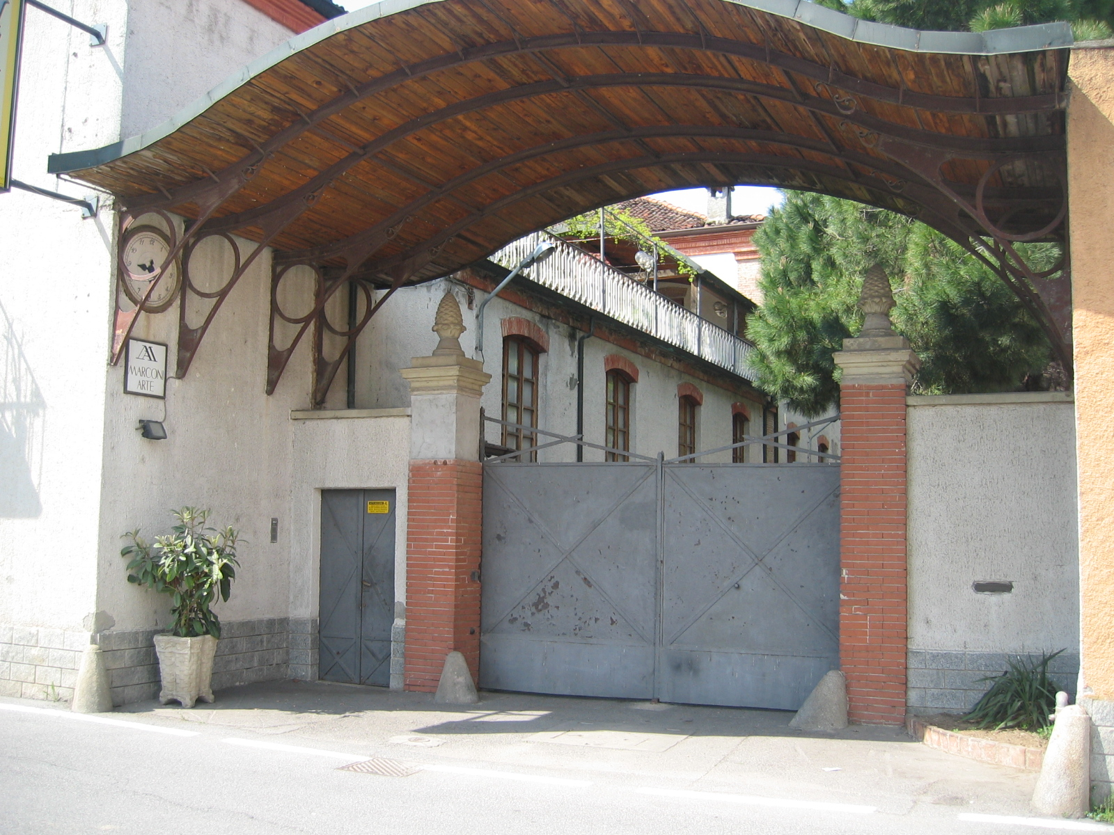 The entrance of the historic factory of geromina, with the ancient clock